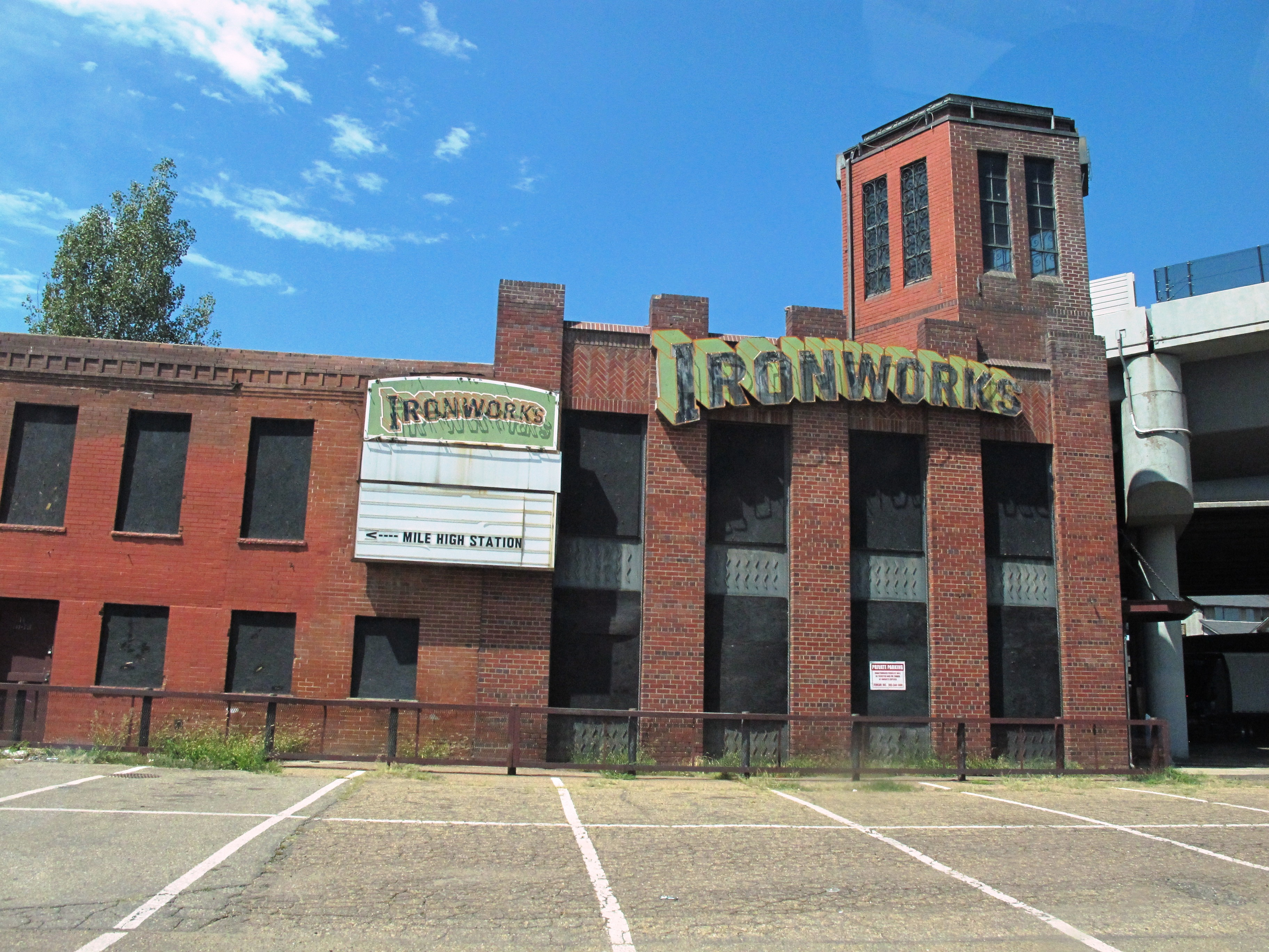 This is the main office building of the Midwest Iron & Steel Works, in Denver, Colorado.